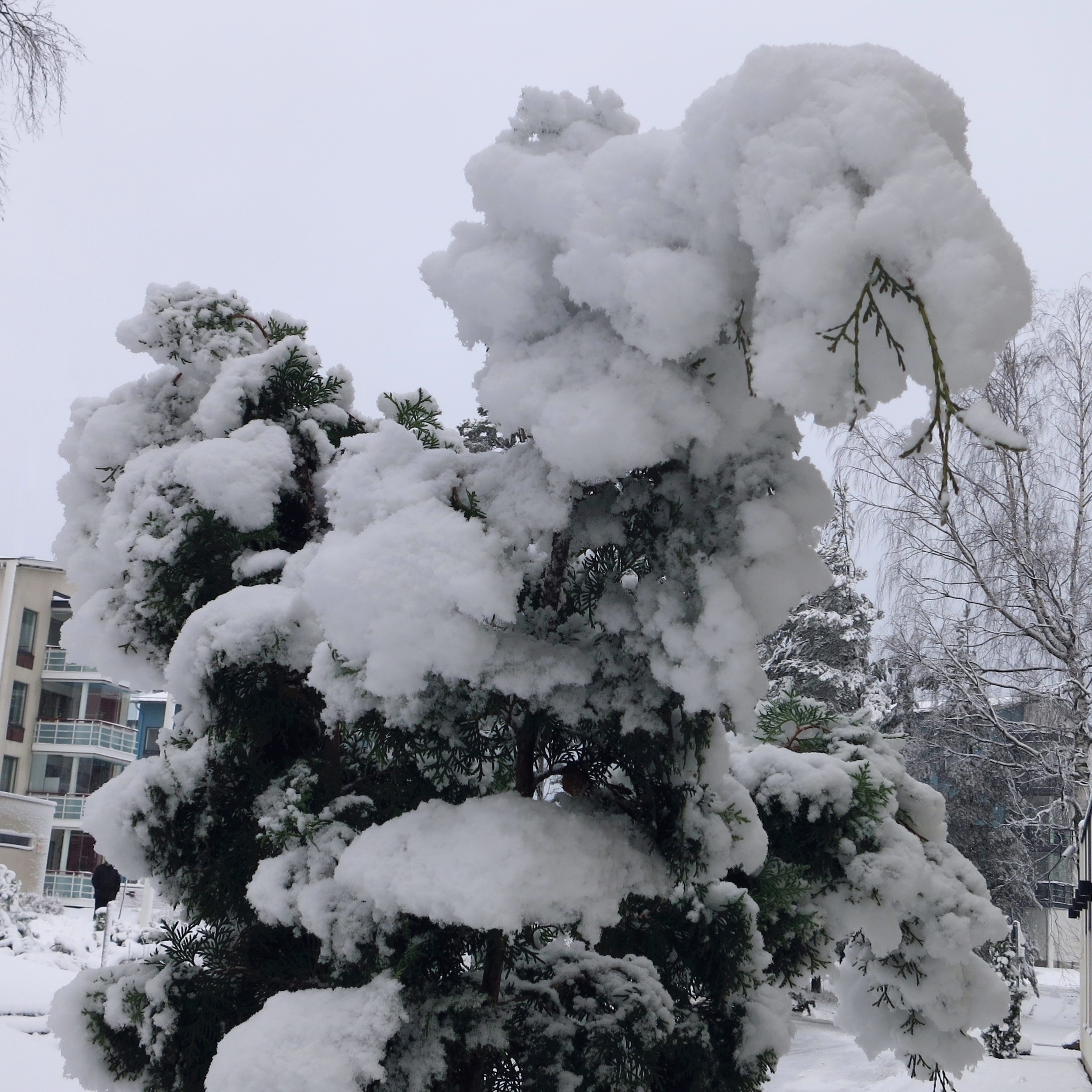 Thuja occidentalis in winter (Hyvinkää, Finland)